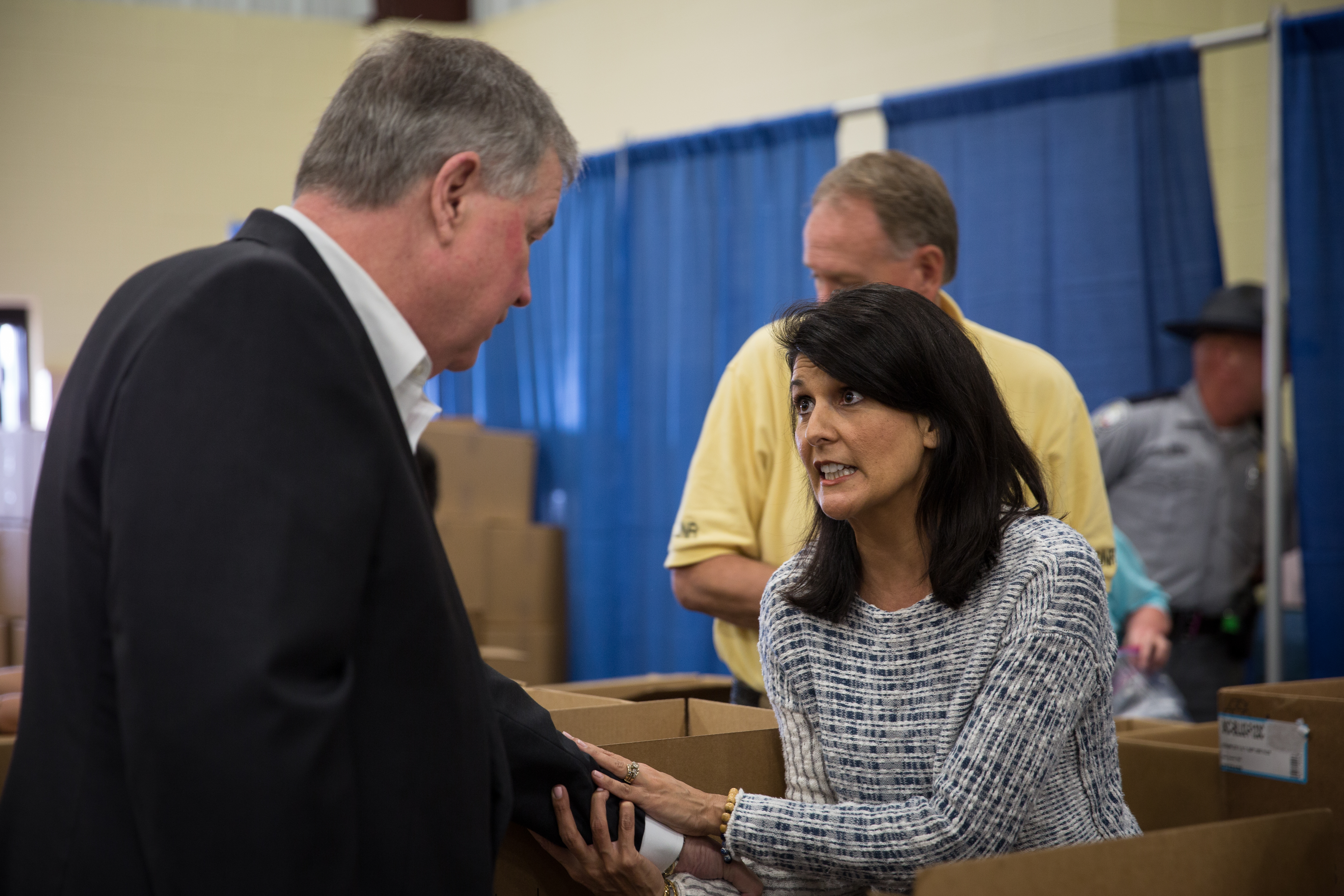 Governor Nikki Haley greets former Lt. Governor Yancey McGill at Team South Carolina Day in Kingstree. Governor Haley hosted Team South Carolina events in Kingstree and Manning for Williamsburg, Florence, and Clarendon Counties. October 26, 2015. (Official Governor's Office Photo by Zach Pippin)